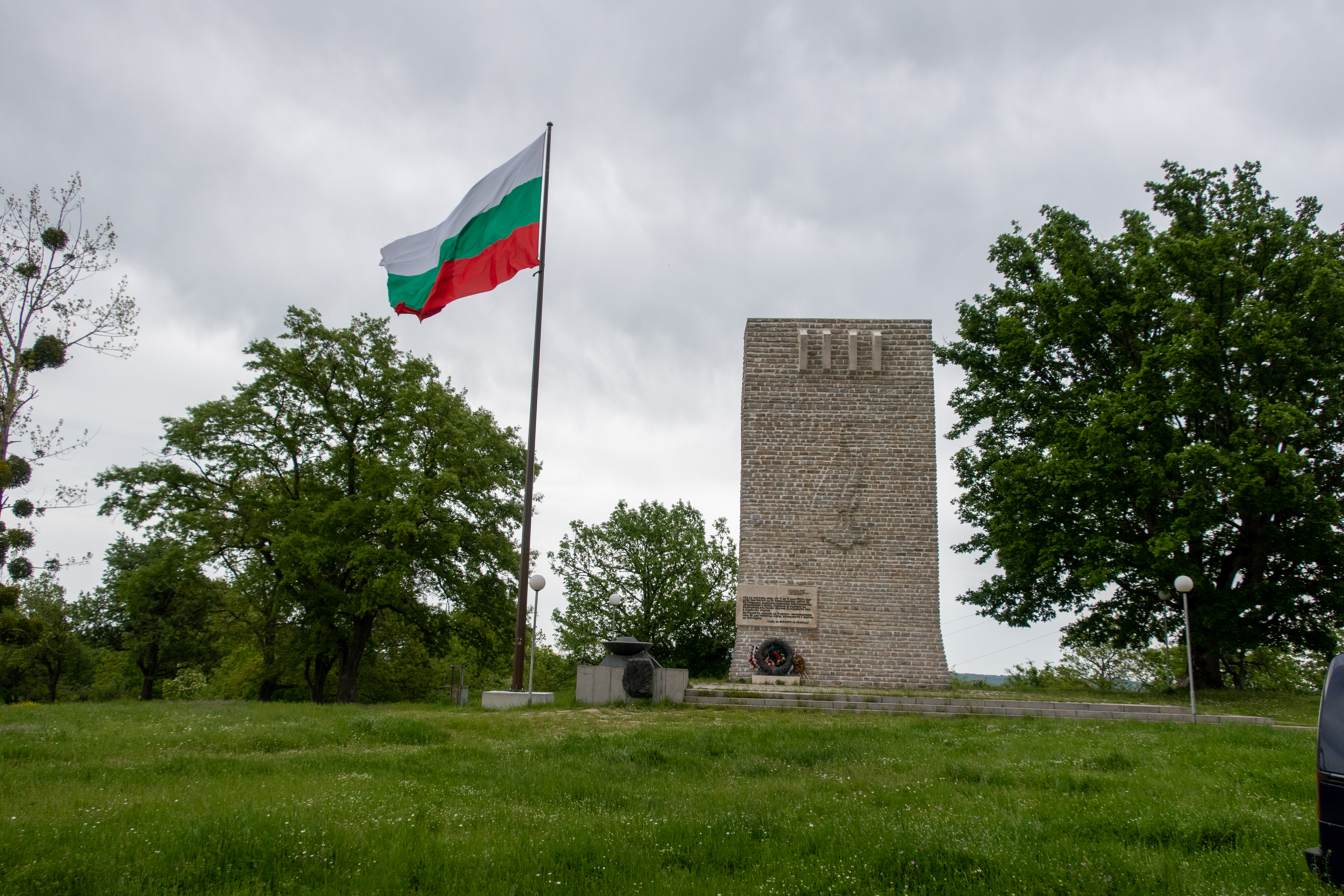 Petrova niva